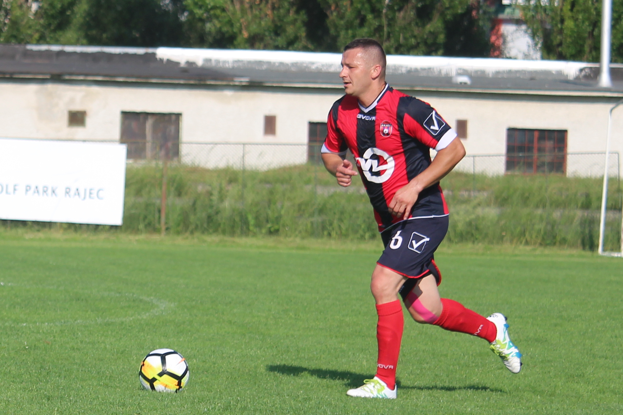 Former MŠK Žilina and Slovakia U21 national team player Michal Drahno. Curently is play coach in FK Rajec (Slovak 4th League)